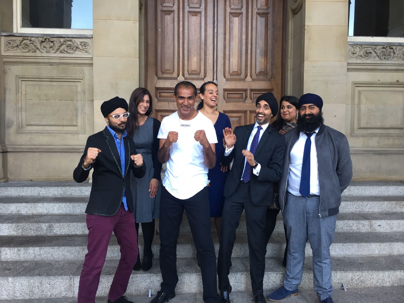 Kickboxer Kash Gill at a panel discussion in Birmingham in 2017. Front row from left to right Param Singh Deputy Chairman at City Sikhs, Kash Gill, Jasvir Singh OBE Chairman at City Sikhs